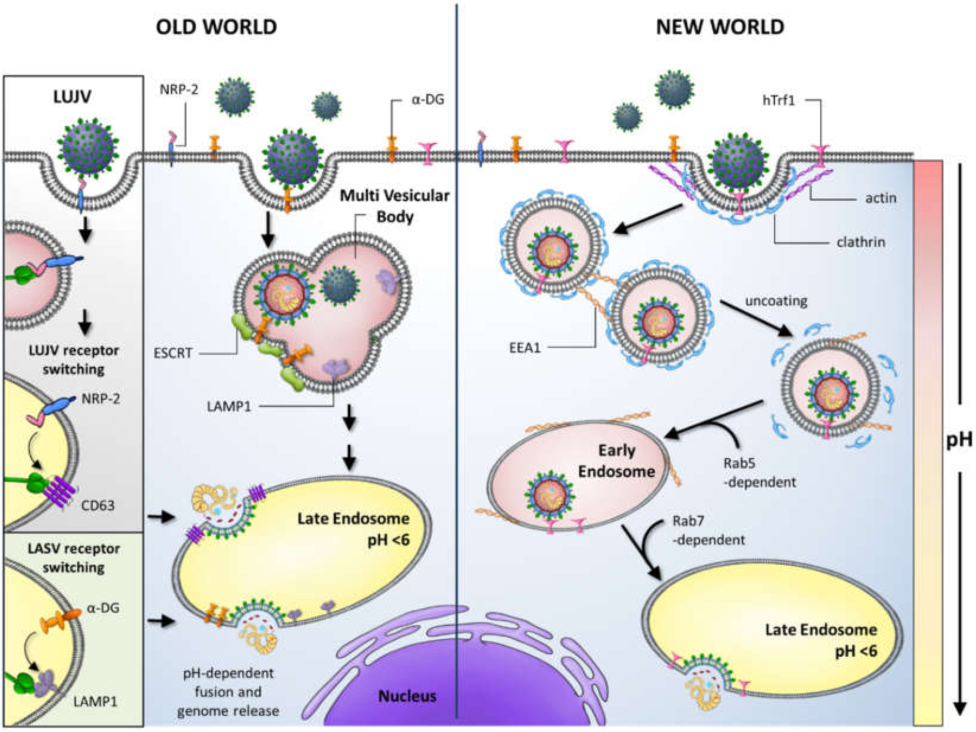 Entry mechanisms of Old World (OW) and New World (NW) arenaviruses. OW arenaviruses bind to α-dystroglycan (α-DG) with the exception of Lujo virus (LUJV) which binds NRP-2. OW arenaviruses enter via a clathrin-independent mechanism involving multivesicular body formation and sorting through the endosomal sorting complex required for transport (ESCRT) pathway. Highly pathogenic NW arenaviruses use human transferrin receptor 1 (hTrf1), or species-specific orthologs, and enter via clathrin-mediated mechanisms. NW virus particles are delivered to EEA1-positive endosomes and then to late endosomal compartments in a Rab5 and Rab7-dependent manner. Upon exposure to low pH in the late endosome, conformational changes in the arenavirus glycoprotein lead to fusion and release of the viral genome into the cytoplasm. Lassa virus (LASV) particles require a receptor switch to lysosome associated membrane protein 1 (LAMP1) in the late endosome. Similarly, LUJV switches to CD63 to mediate fusion.